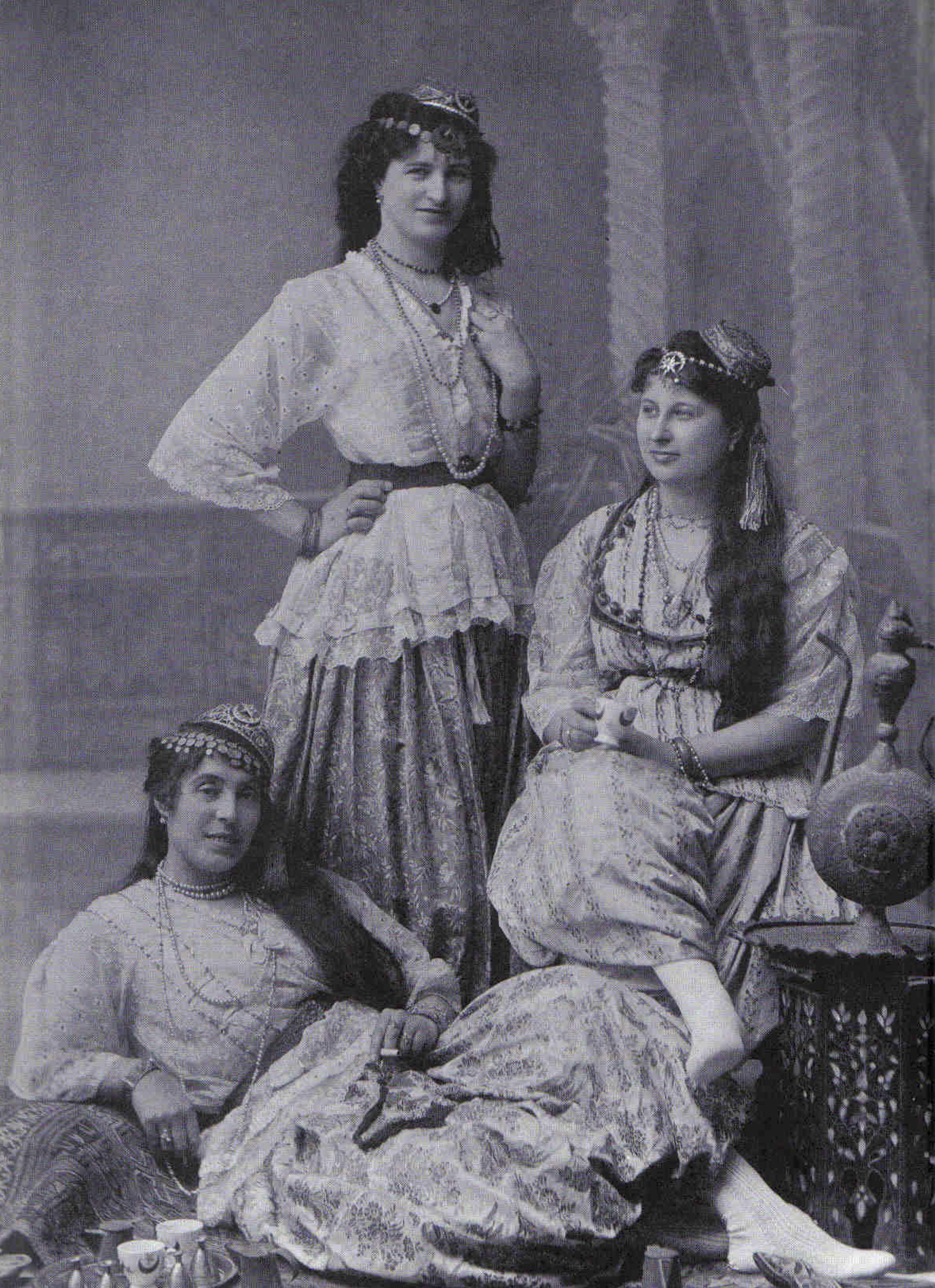 A photo taken in an Algiers Studio during the 1880s